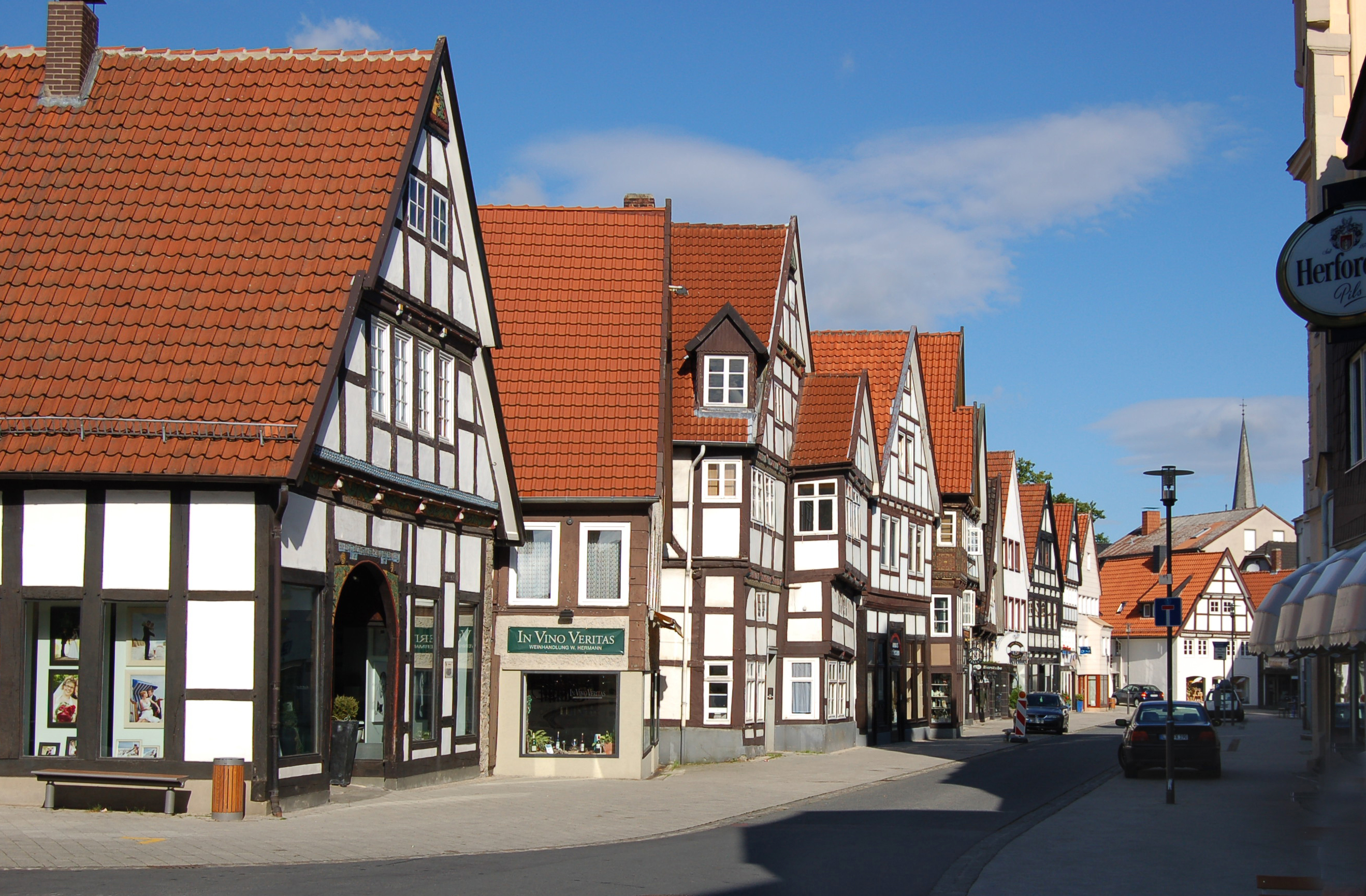 Timber framed houses of Krumme Straße in Detmold, Germany